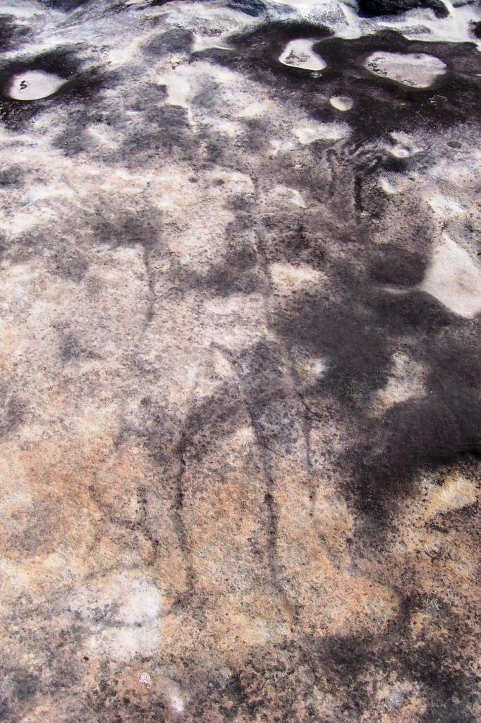 Ku-ring-gai Chase National Park - petroglyph, via Waratah Track. Figure is 1.7 metres long; notable features include the swollen leg and the lack of a neck. Rock is triassic Hawkesbury Sandstone, 220 million years of age. It shows Baiame (ref:Josephine McDonald: Dreamtime superhighway: an analysis of Sydney Basin rock art and prehistoric ...